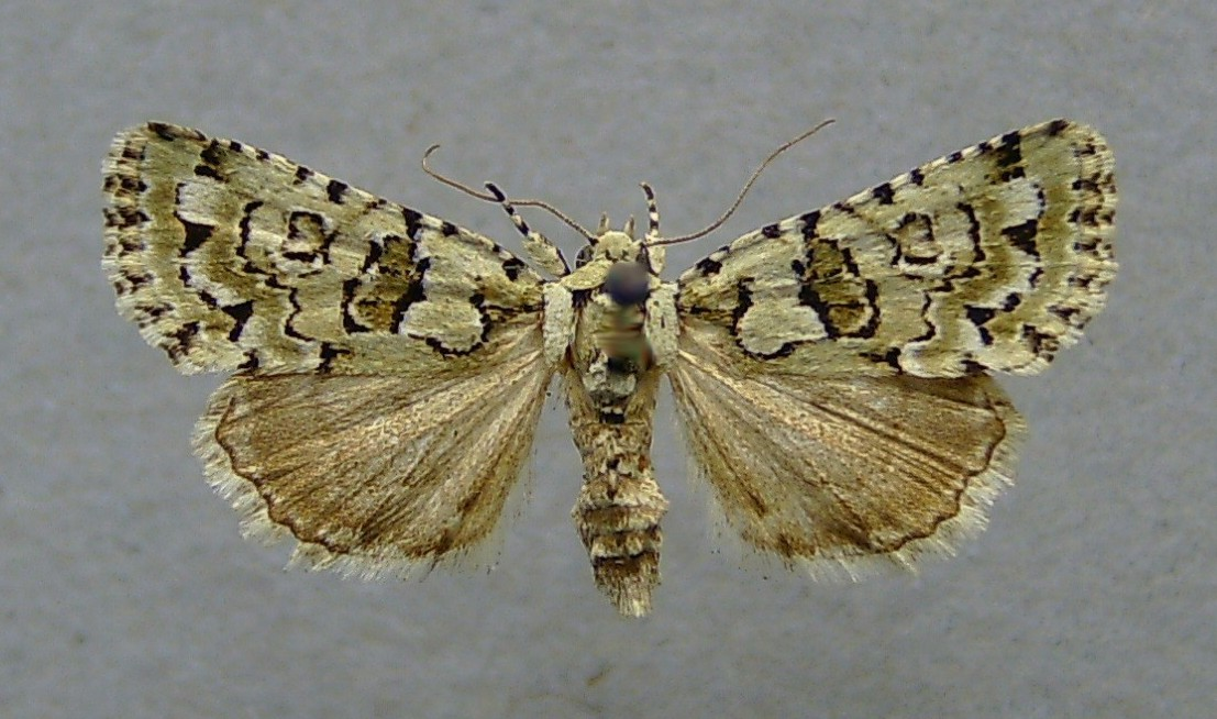 Nyctobrya muralis